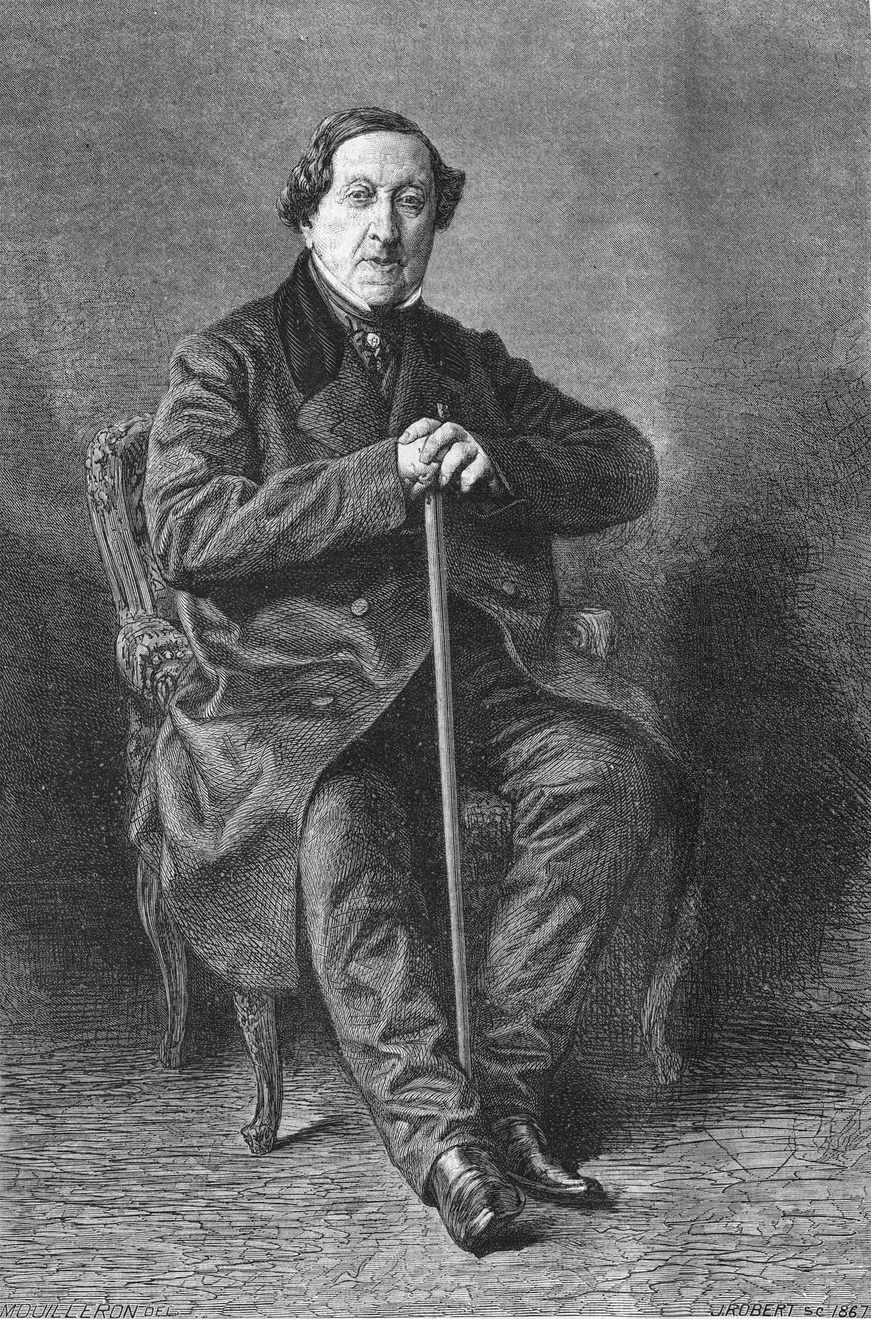 Gioachino Rossini by Jules Robert (1843–1898) after an intermediary drawing by Adolphe Mouilleron (1820–1881).